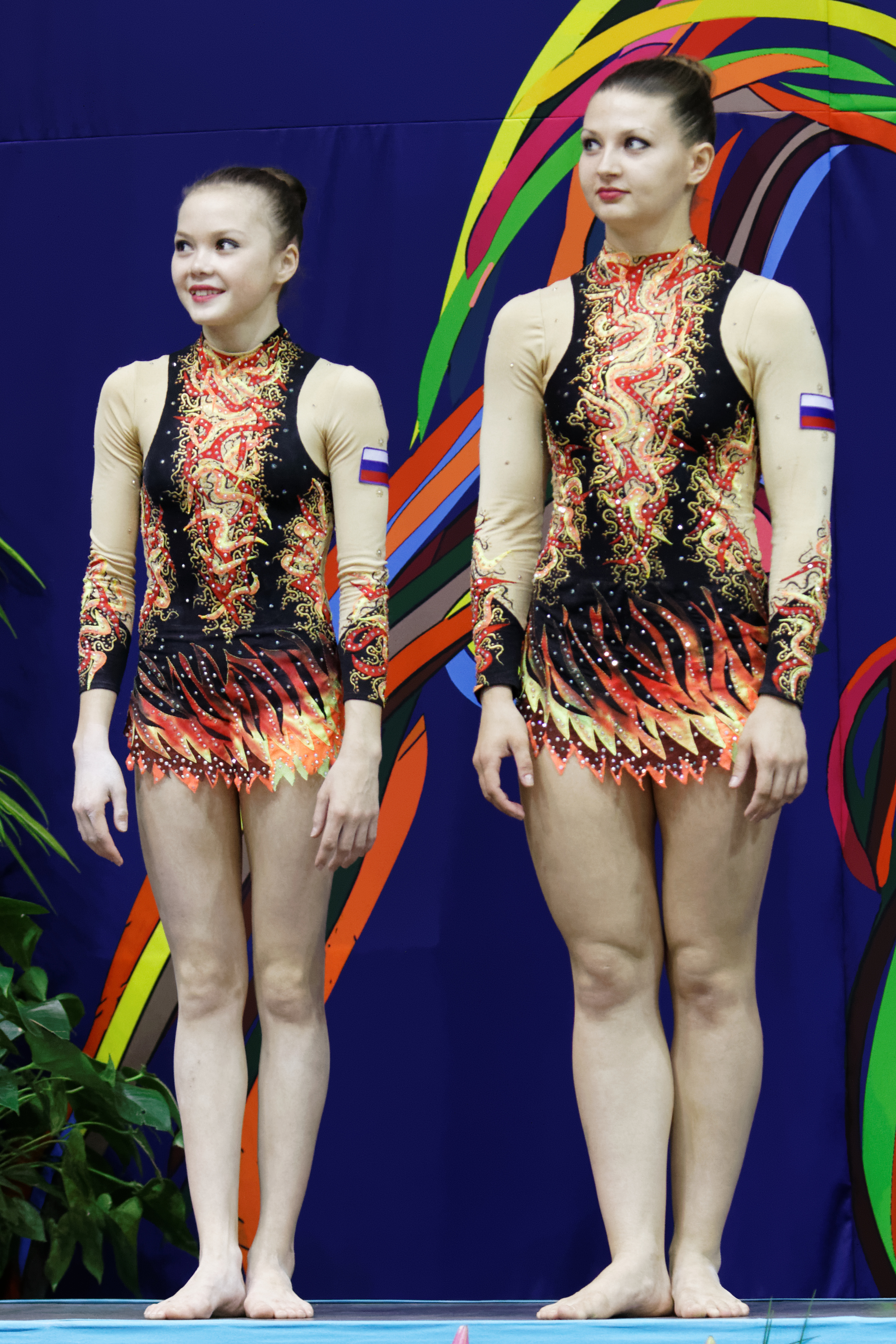 Valentina Kim (left) and Elizaveta Dubrovina (right), silver medallists at the 2014 Acrobatic Gymnastics World Championships, 10th-12 July, Levallois-Perret, France. Awarding ceremony.